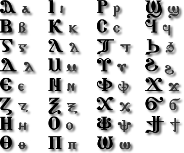 Coptic Alphabet